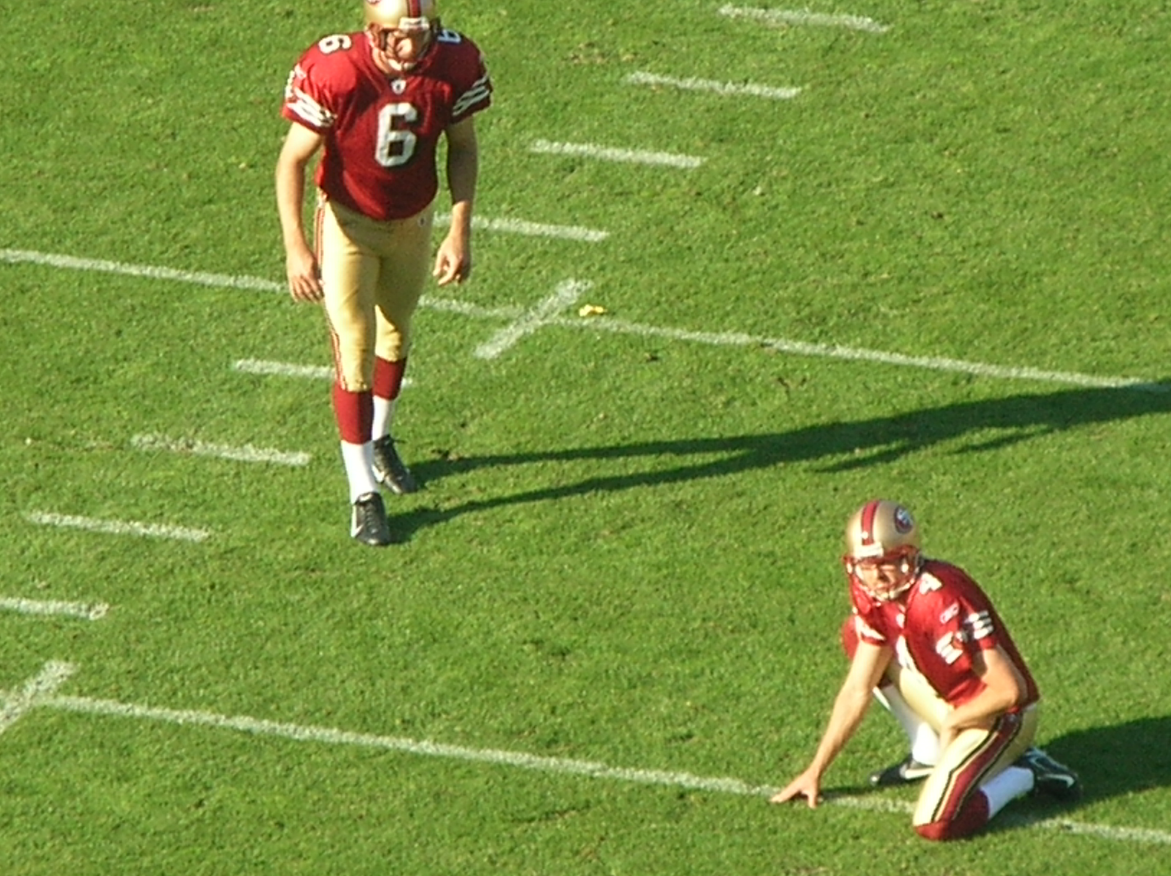 San Francisco 49ers Joe Nedney prepares to kick the extra point at a regular season game against the St. Louis Rams. The 49ers won 35-16.